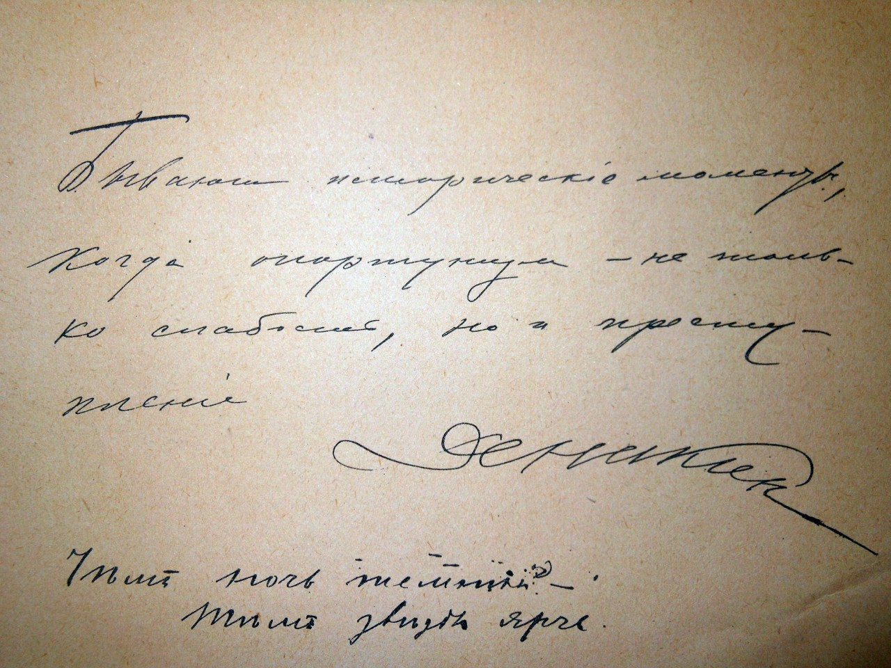 Page from "Bykhovsky Album" with signature of General Denikin